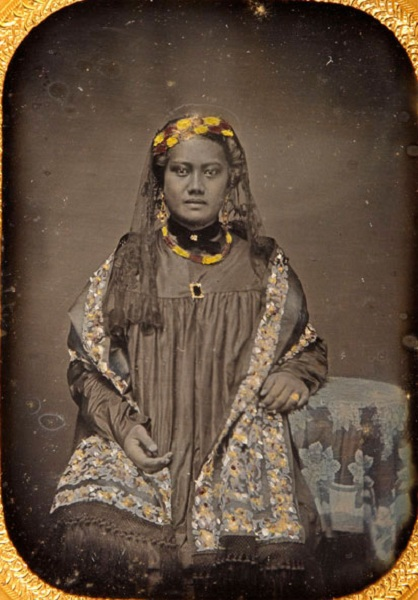 Lucy Muolo Moehonua (-1865), was the second wife of William Luther Moehonua who he married in September 11, 1849. She was the daughter of Kaaha and Kamaile and sister of Hiram Kahanawai.